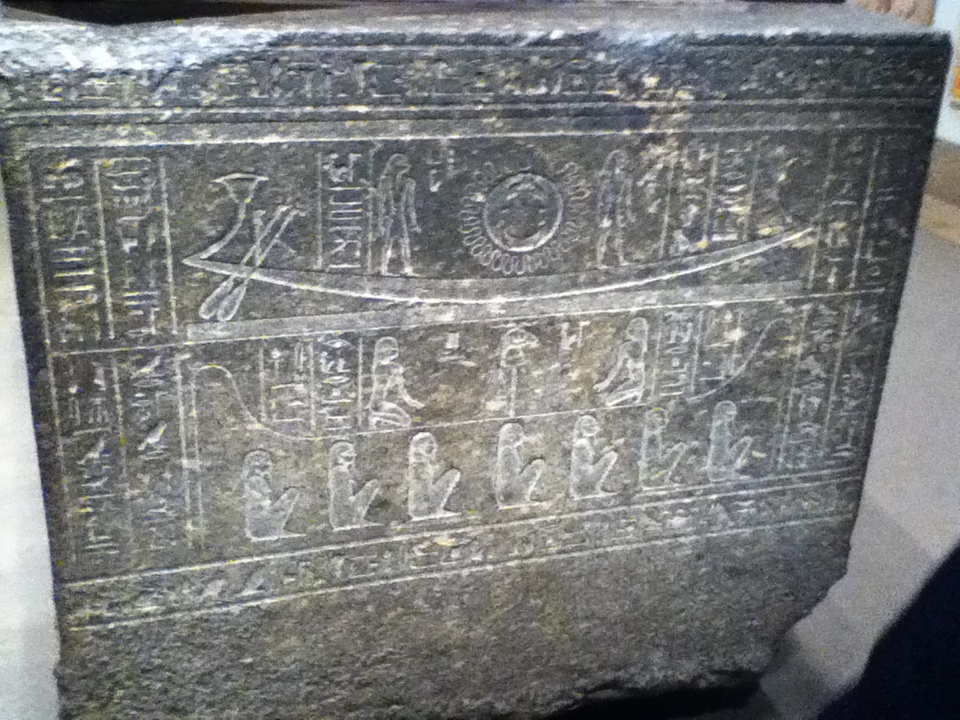 This is the side of an Ancient Egyptian sarcophagi. Date unknown.